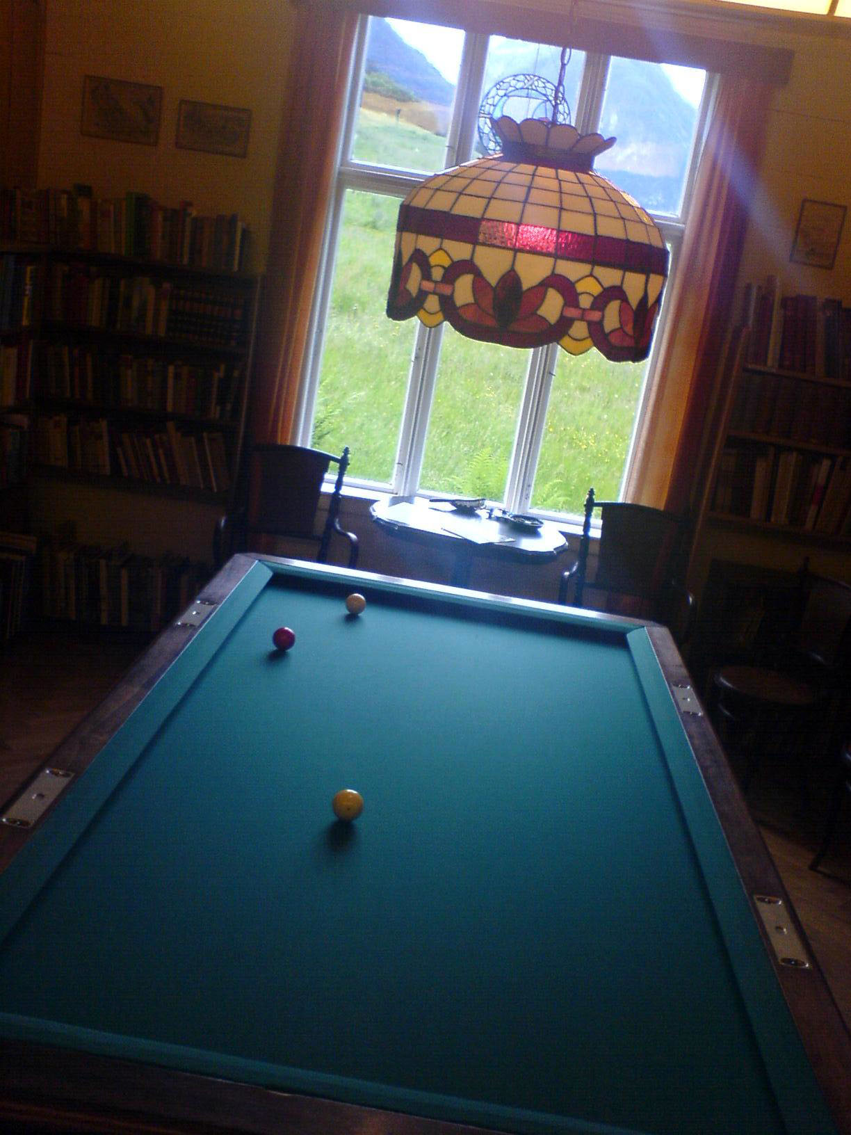 Carom billiards table. Mundal Hotel in Fjærland, Norway.